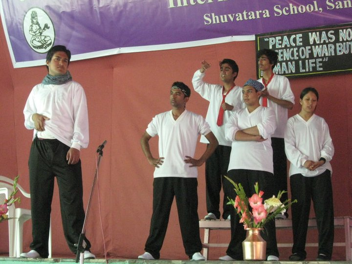 Young Yatris acting in Paath...saala